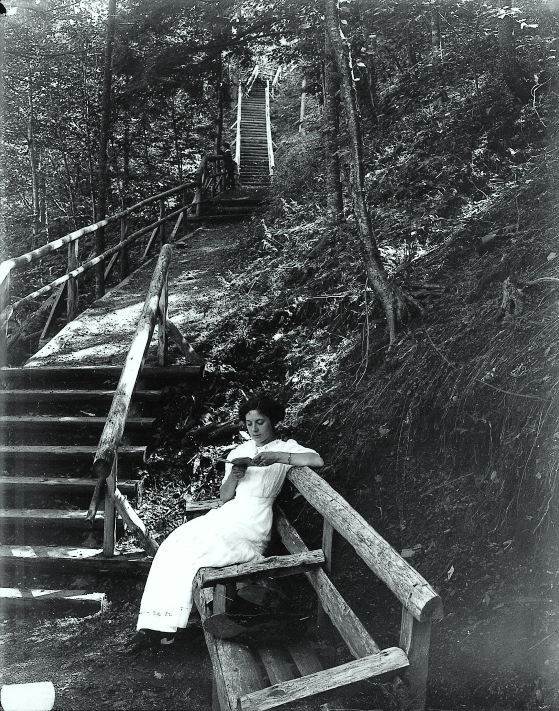 Photograph A quiet nook, Victoria Park, Truro, NS, probably 1915 Wm. Notman & Son Probably 1915, 20th century Silver salts on glass - Gelatin dry plate process 12 x 10 cm